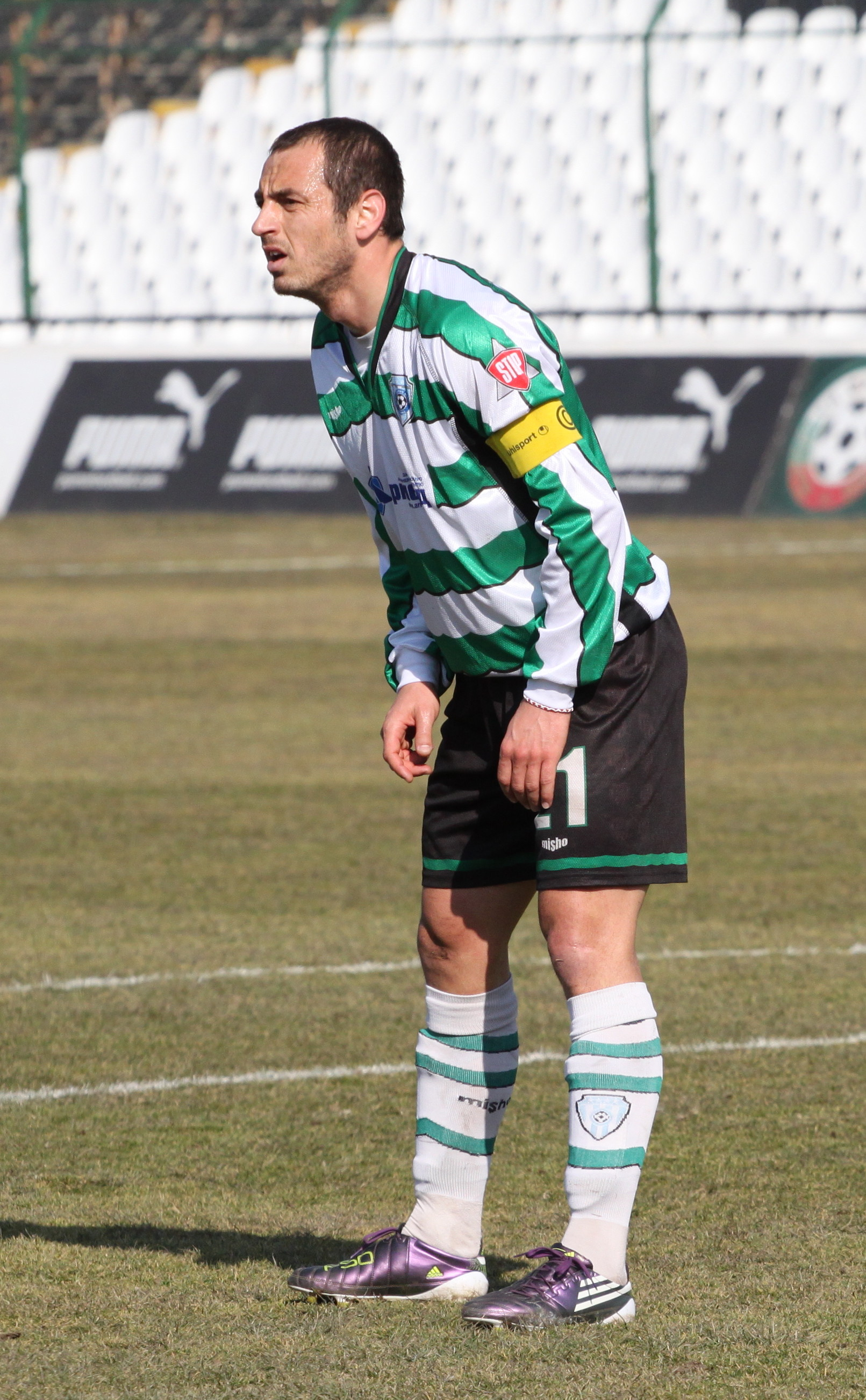 Georgi Iliev (Bulgarian: Георги Илиев) (9 September 1981 in Varna) is a Bulgarian football (soccer) player on the position of a midfielder who currently plays for Cherno More.